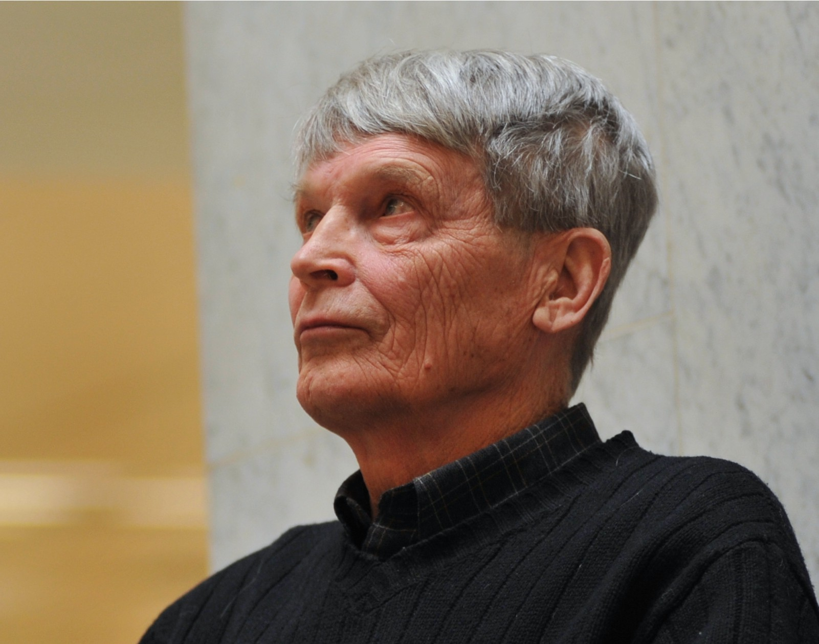 Antti Hyry, Finnish writer, Akateeminen kirjakauppa bookstore, Helsinki, January 2010.